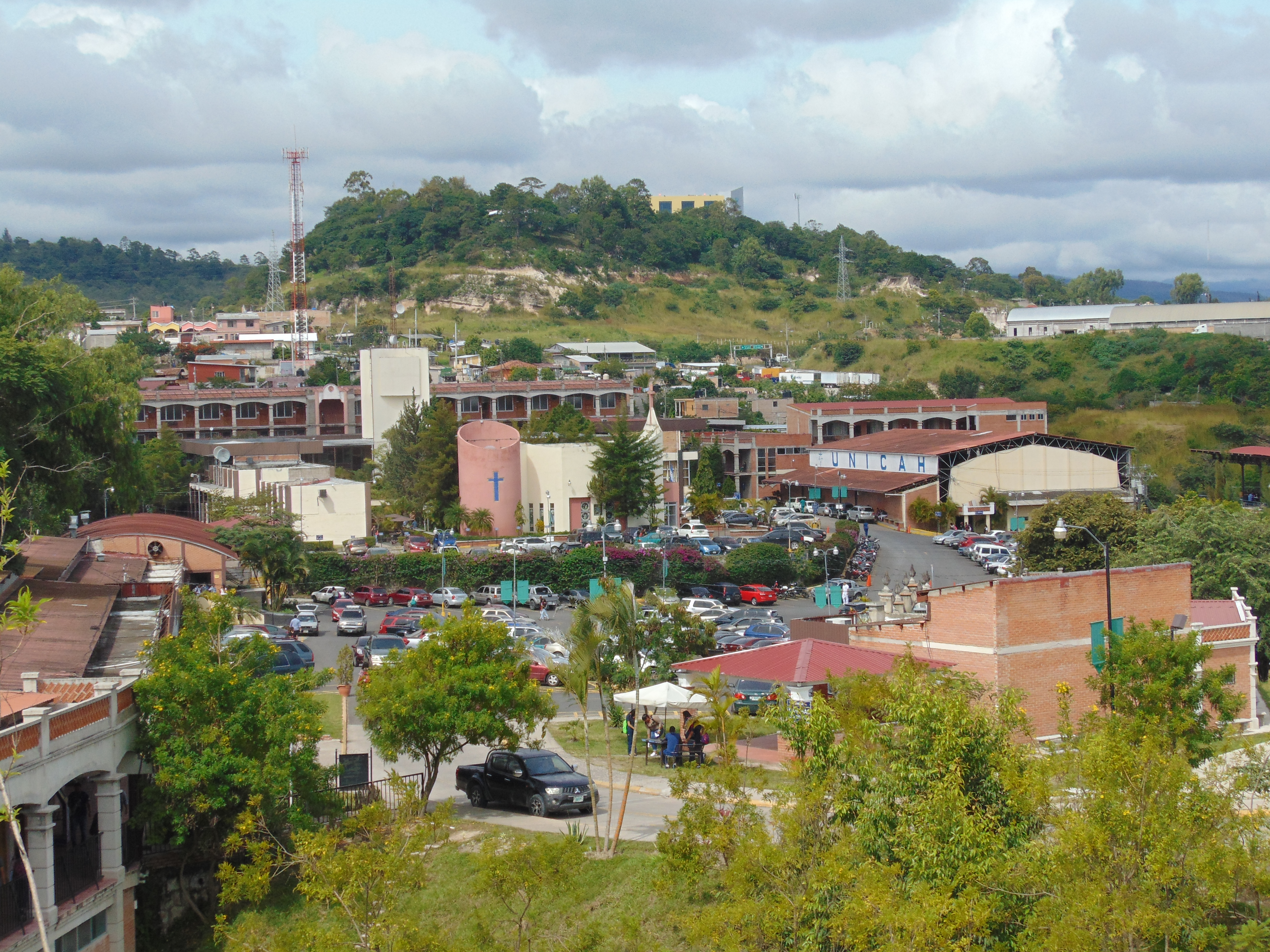 View of the Campus Sagrado Corazón de Jesús.